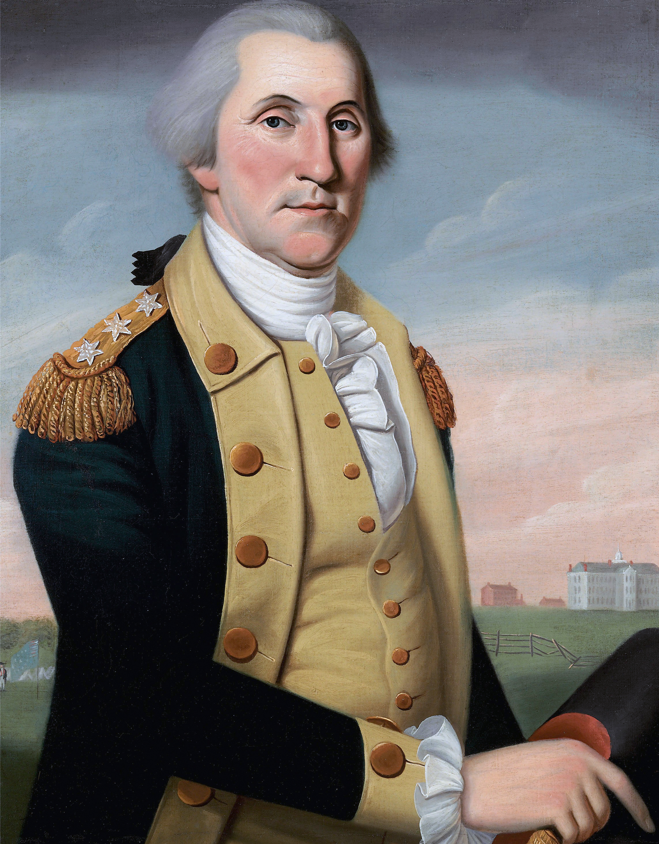 George Washington at Princeton.